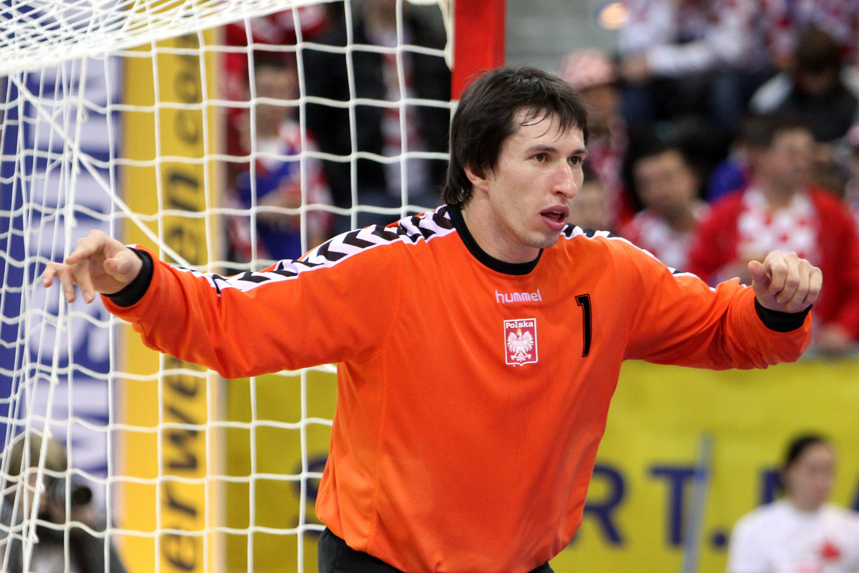 Sławomir Szmal (Rhein-Neckar Löwen), Poland national handball team